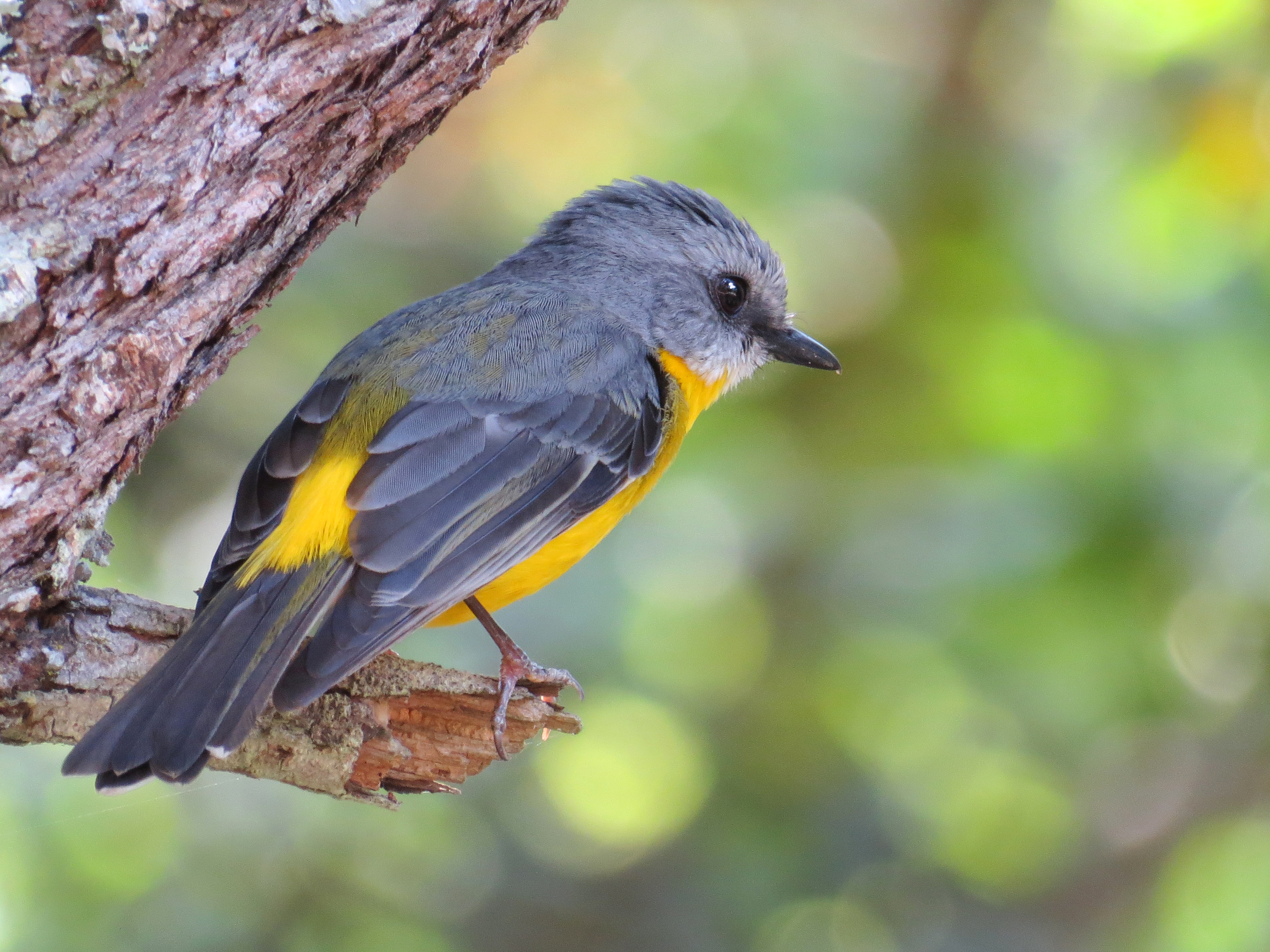 Eastern Yellow Robin, the northern form (chrysorrhoa) taken at Lake Tinaroo, Atherton Tablelands, Queensland. The northern form is distinguished from the southern form by its bright yellow rump.